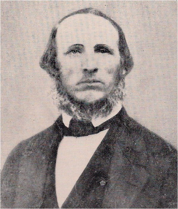 Alexander Bonner Latta